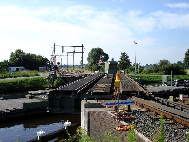 swing train bridge (Meppel, NL)